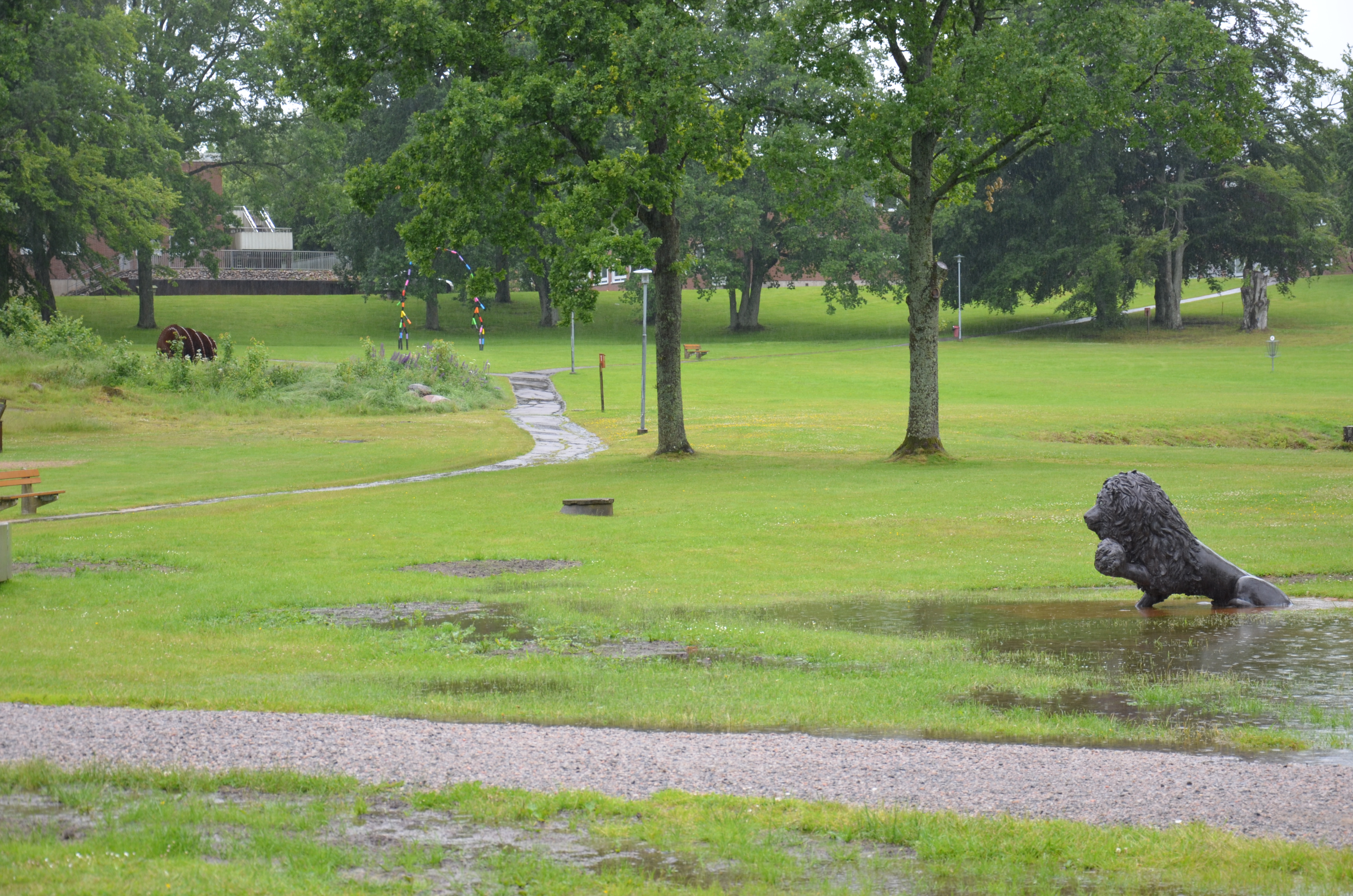 Laura Ford´s Lion, bronze, 2011, in Holzhausen´s park in Vänersborg